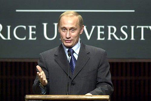 ХЬЮСТОН. Выступление в Университете Райса.